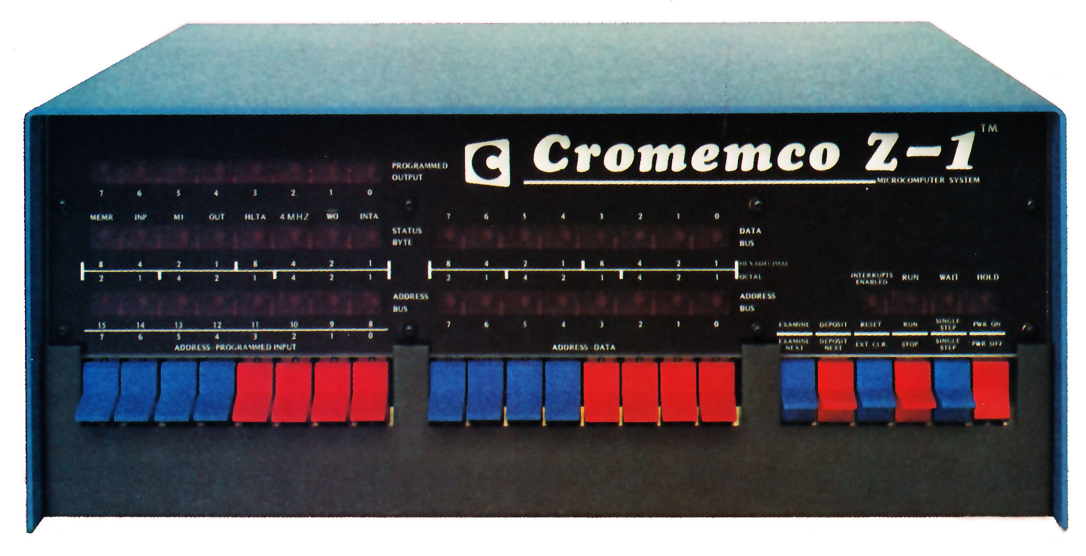 Cromemco Z-1 computer, cropped from File:Cromemco Z-1 advertisement January 1977.jpg